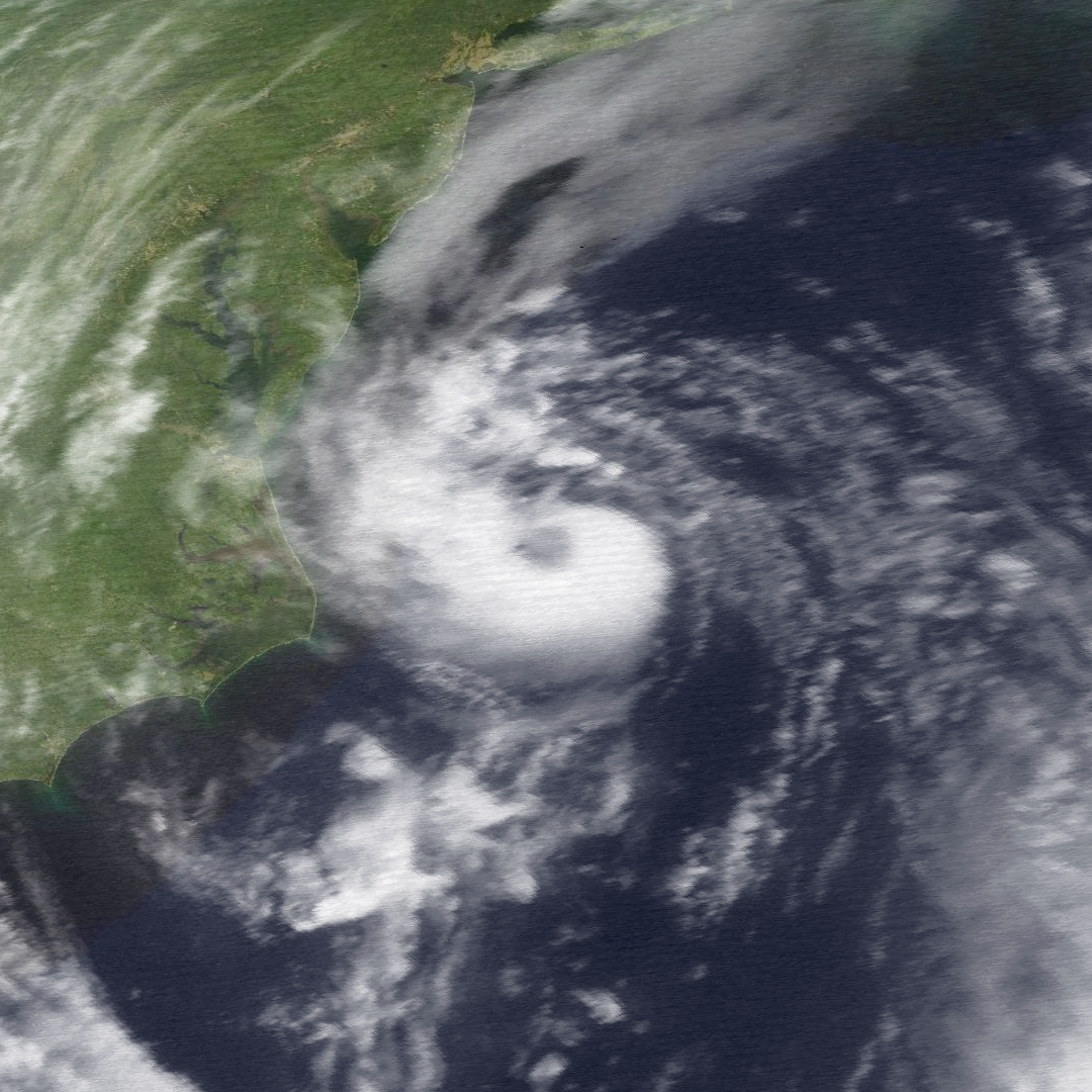 Tropical Storm Bret at peak intensity off the coast of North Carolina on June 30, 1981